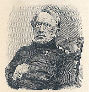 General Niels Christian Lunding. 1795-1871.